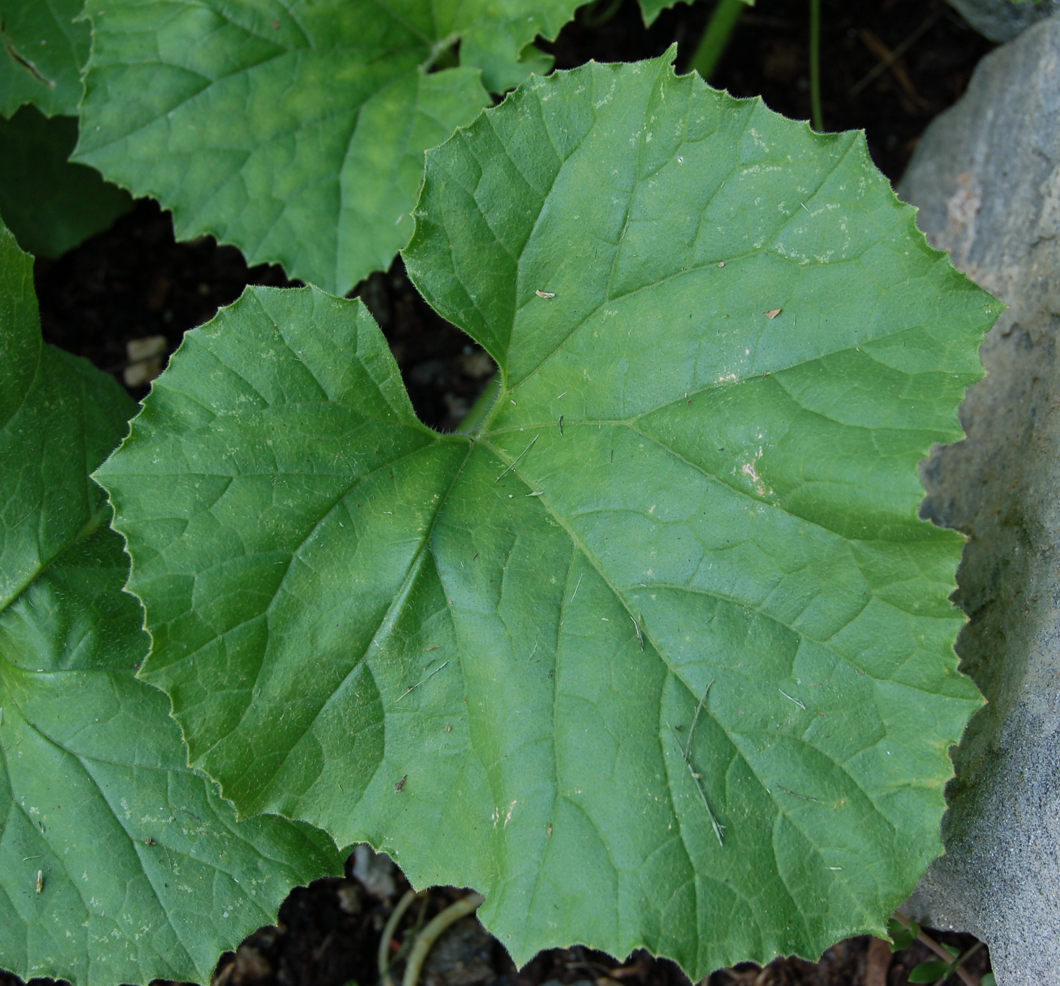 The leaf of a Honeydewen (Cucumis melo en ) plant. This particular leaf is from the Honeydew-Tam Dew variety.